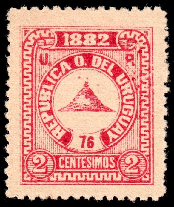 Uruguay 1882, mint, position 76. Catalogue: Sc. 47